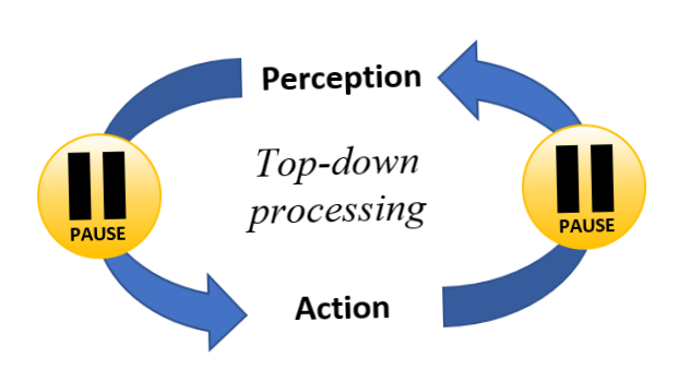 Perception-Action Cycle in the Prefrontal Cortex